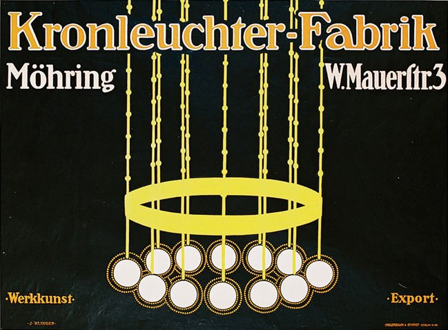 Promotional poster for the Möhring Kronleuchter (candelabra) factory, letterpress technique